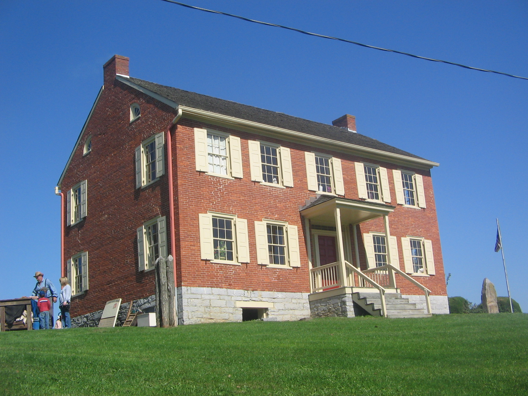 Hower-Slote House in Lewis Township, Northumberland County, Pennsylvania in the United States. Listed on the National Register of Historic Places